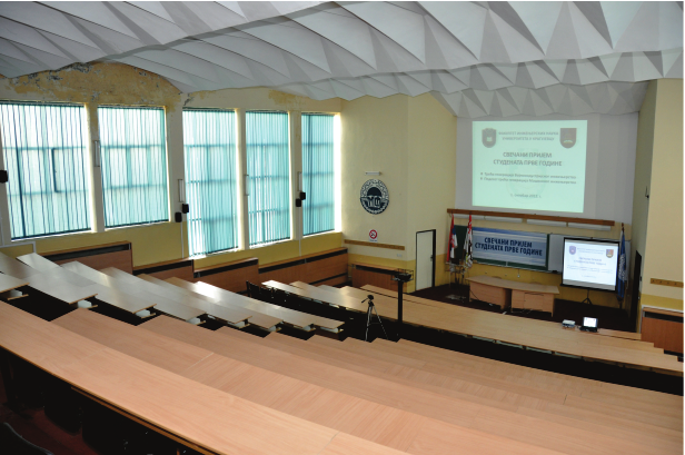 faculty of engineering